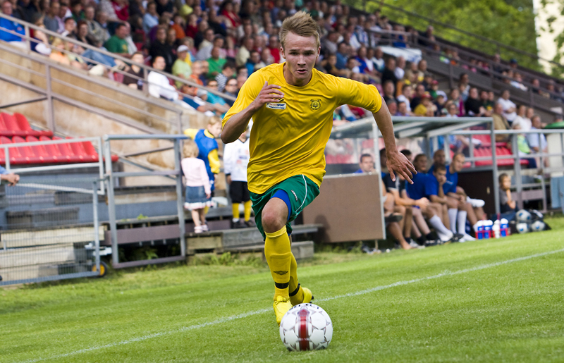 Football player Tommi Malinen of Ilves Tampere